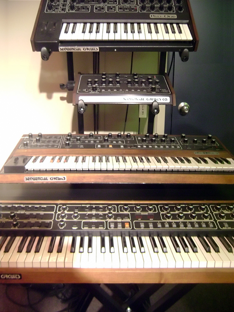 Sequential Circuits was a US-based company that eventually got bought out by Yamaha. This is one of several racks of synths the Cantos museum had on display. Visited the Cantos Foundation museum of keyboards & electronic instruments, and took a lot of photos and videos.